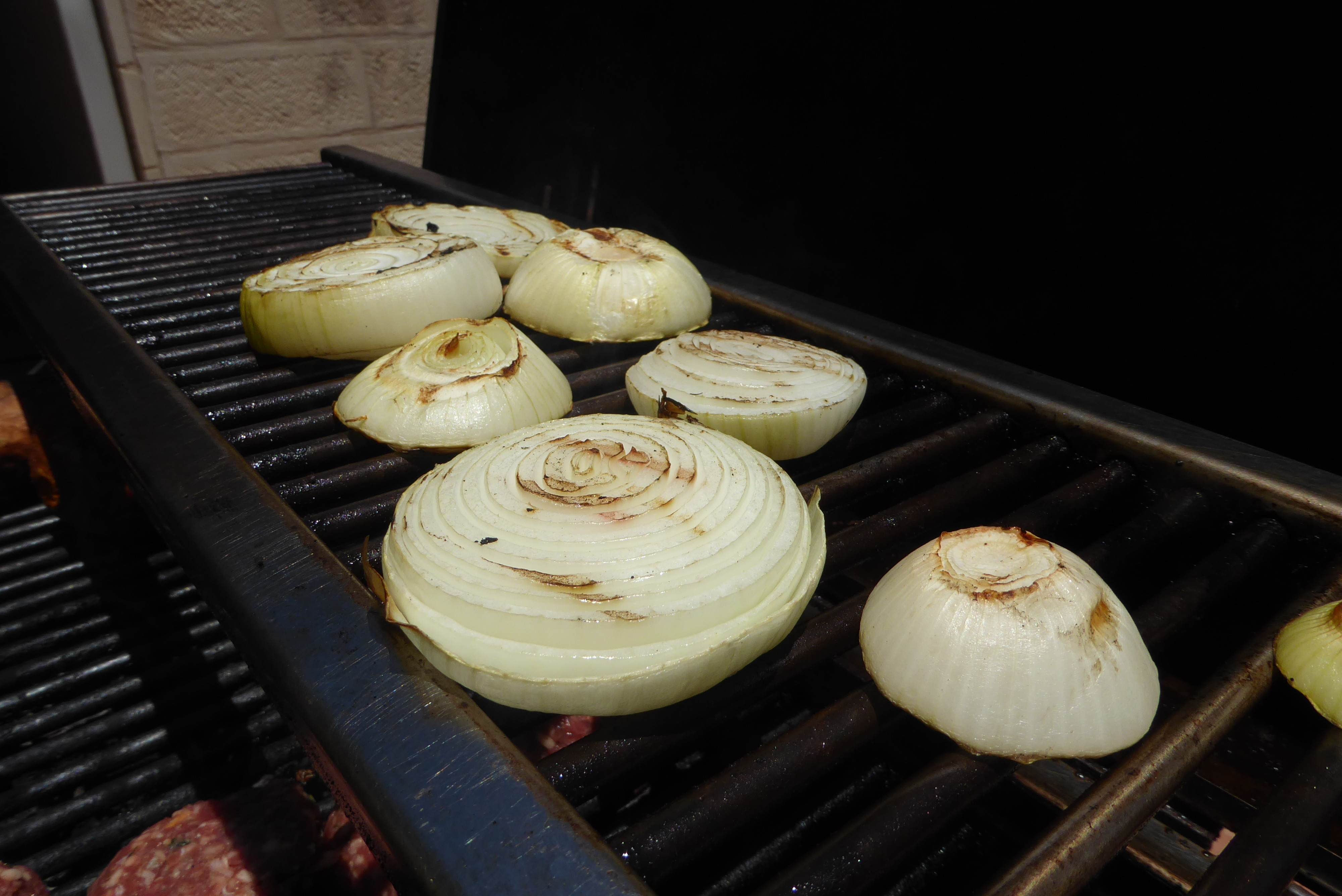 Barbecue in Israel - Onions